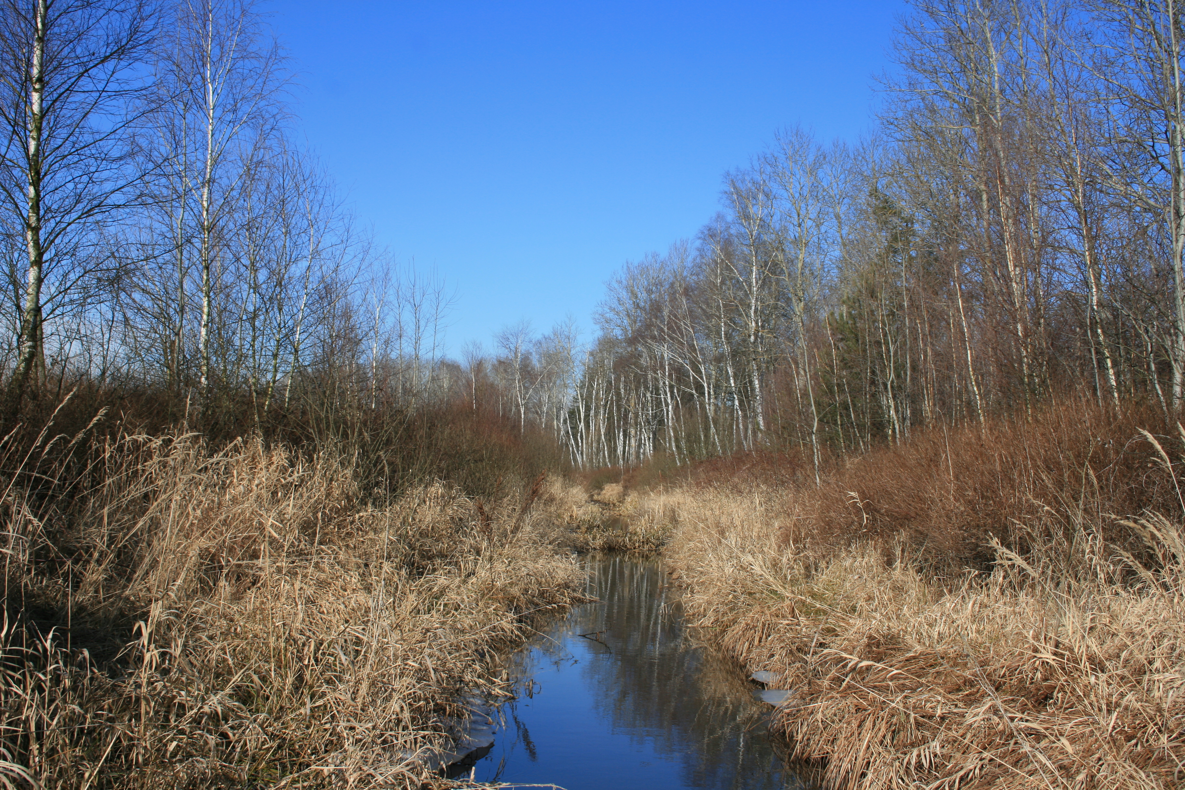 The brook Blatská stoka near to Borkovice Village, Tábor District, Czech Republic.